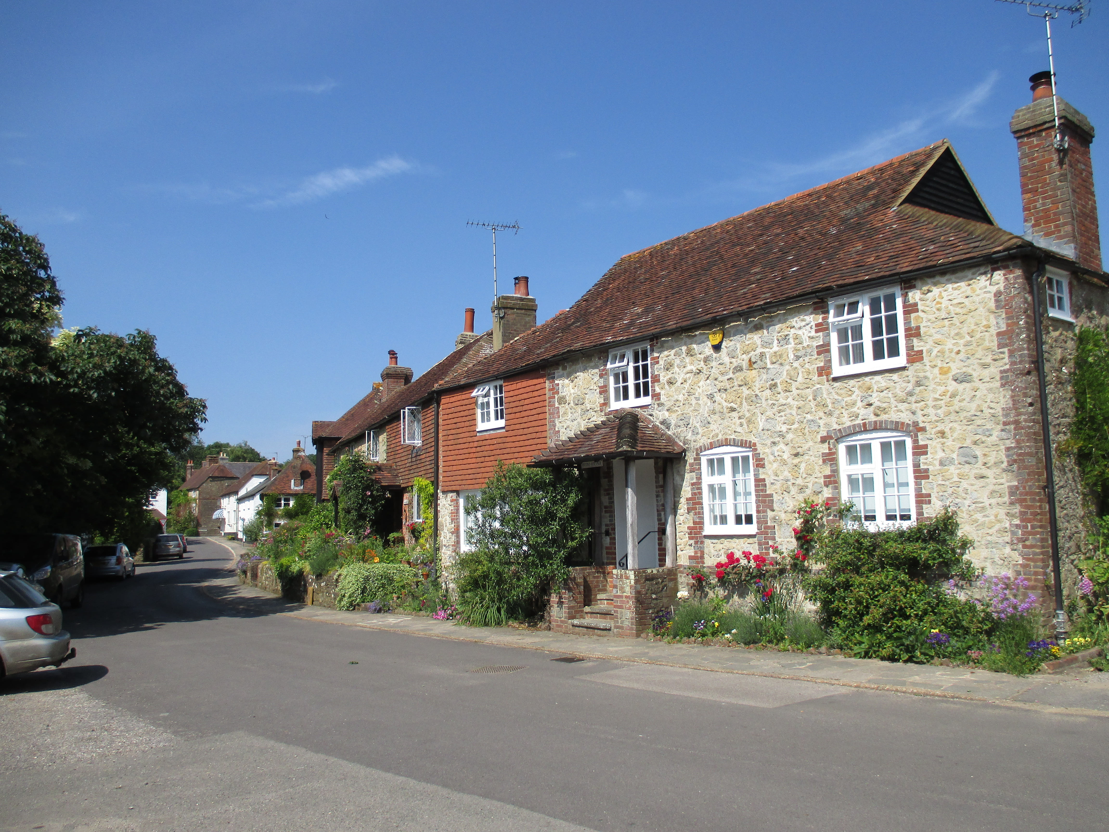 Church Street, West Chiltington, West Sussex, looking north